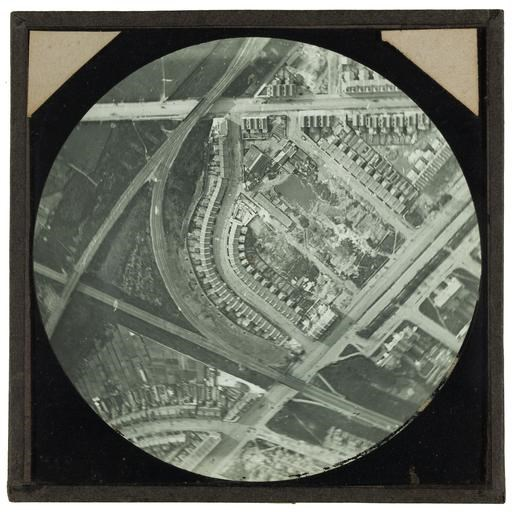 An aerial view showing Stonebridge Road, Stamford Hill, and Seven Sisters Curve, part of the Tottenham and Hampstead Junction Railway, taken from 2000ft. This image is the earliest extant aerial photograph taken in the British Isles Date: 29 May 1882 Location: Stonebridge Road, Stamford Hill, Haringey, Greater London Authority Reference: CVS01/01/054 Type: Photograph (Lantern Slide)